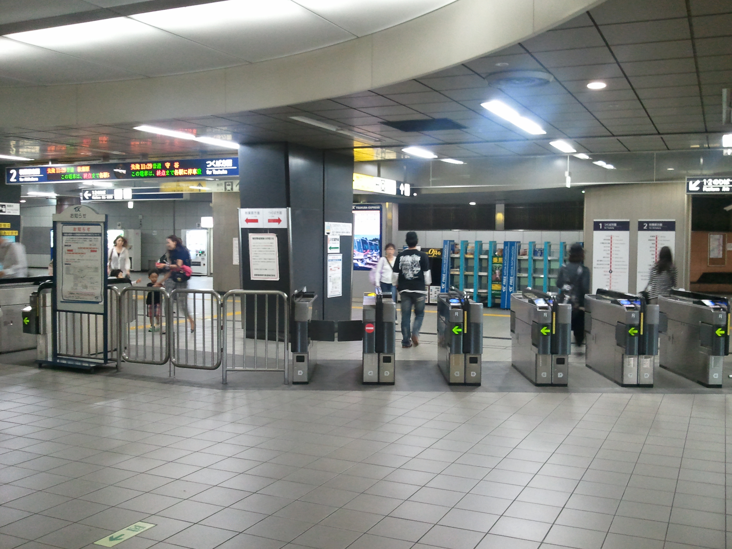 Ticket gates at Minami-Nagareyama Station on the Tsukuba Express